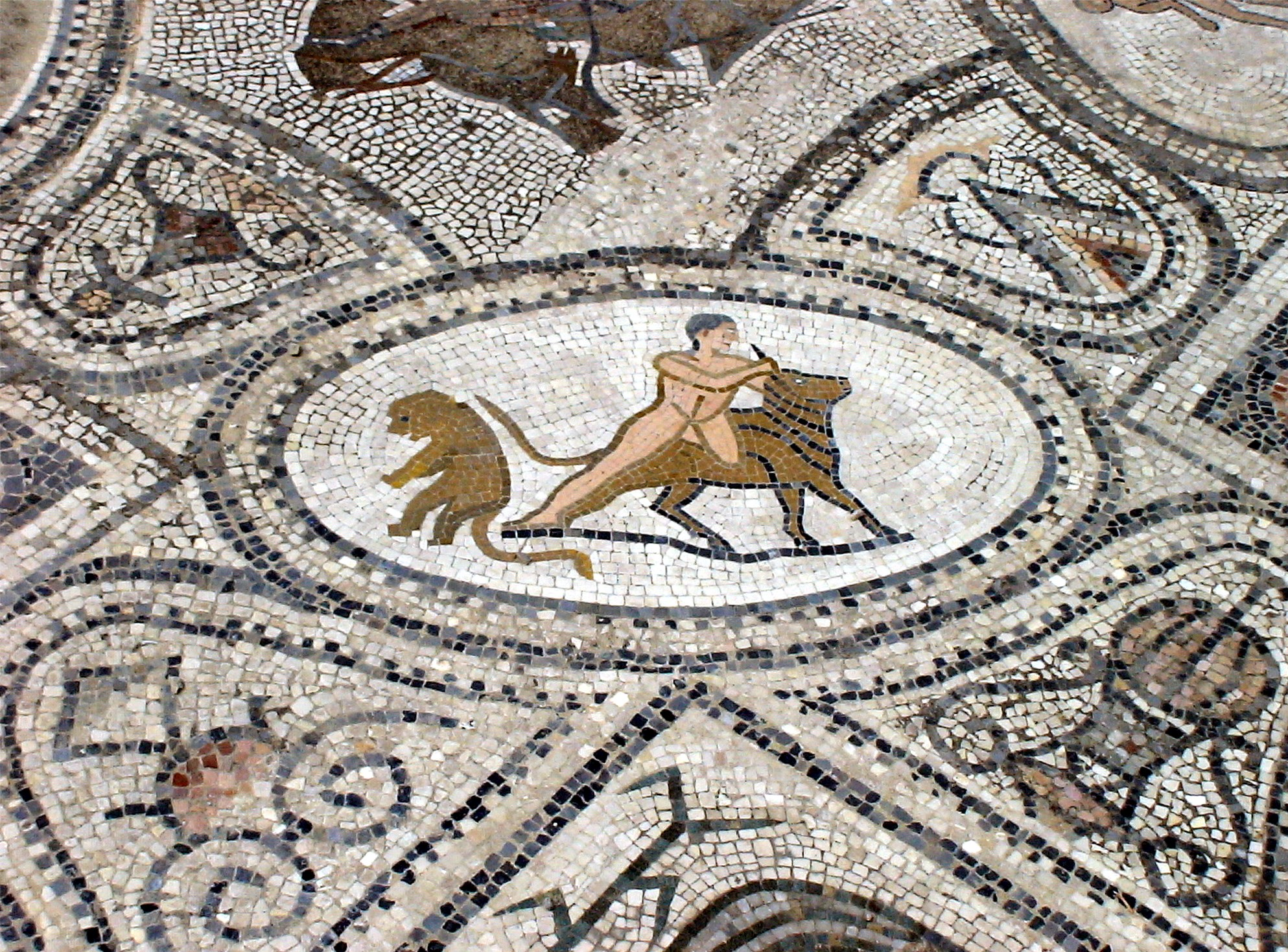 Archaeological Site of Volubilis, Morocco. Mosaic of the Cretan bull of Minos (the twelve labors of Hercules).